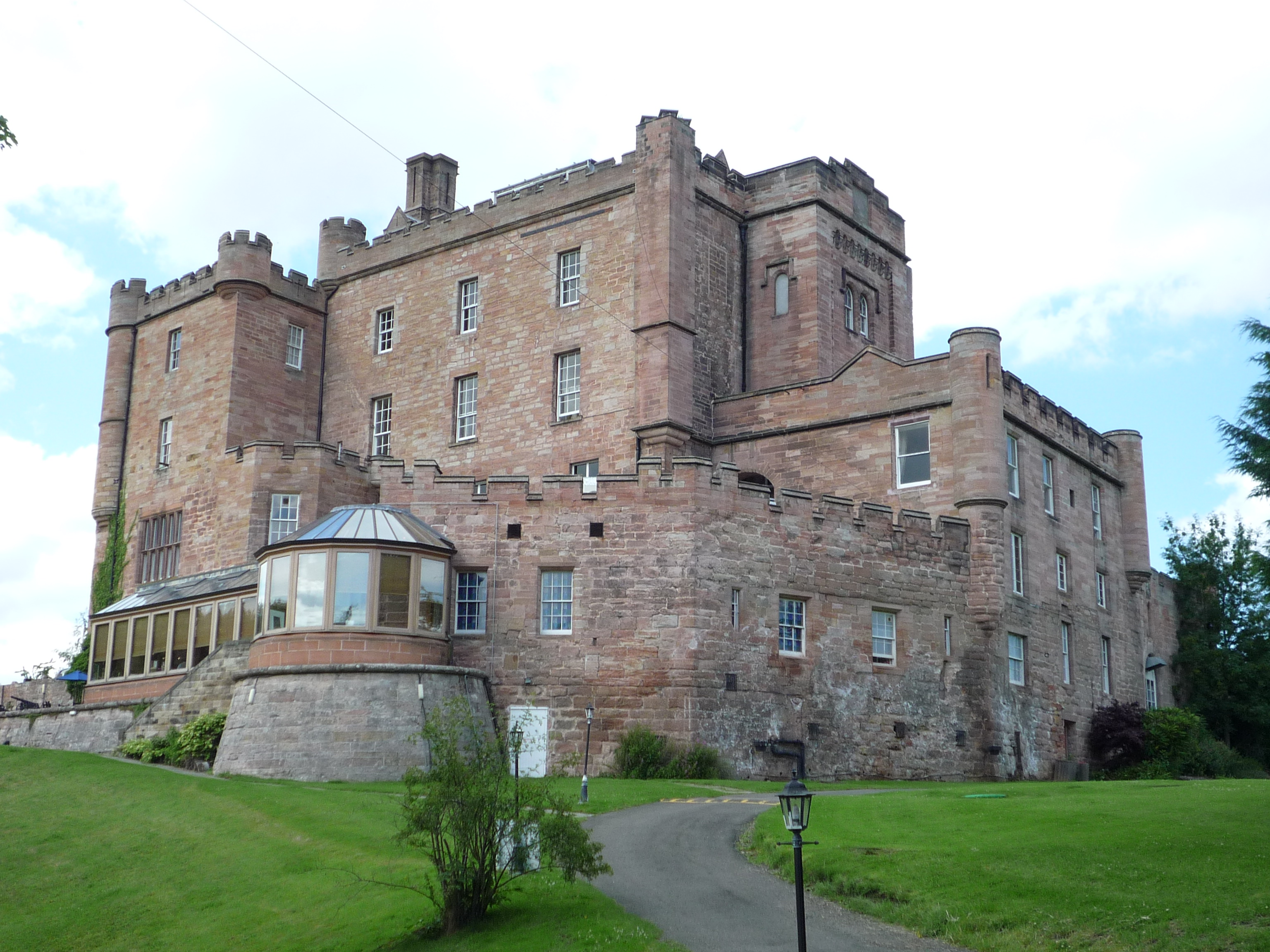 The south east corner of Dalhousie Castle near Bonnyrigg, Midlothian, Scotland seen from the bridge over the Redside Burn. More images.